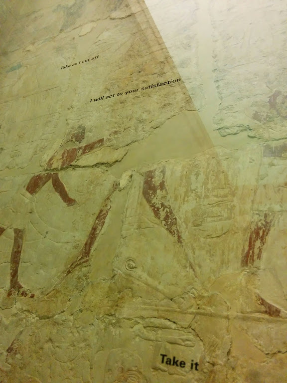 Section of wall from the Tomb of Perneb, MoMA, New York.